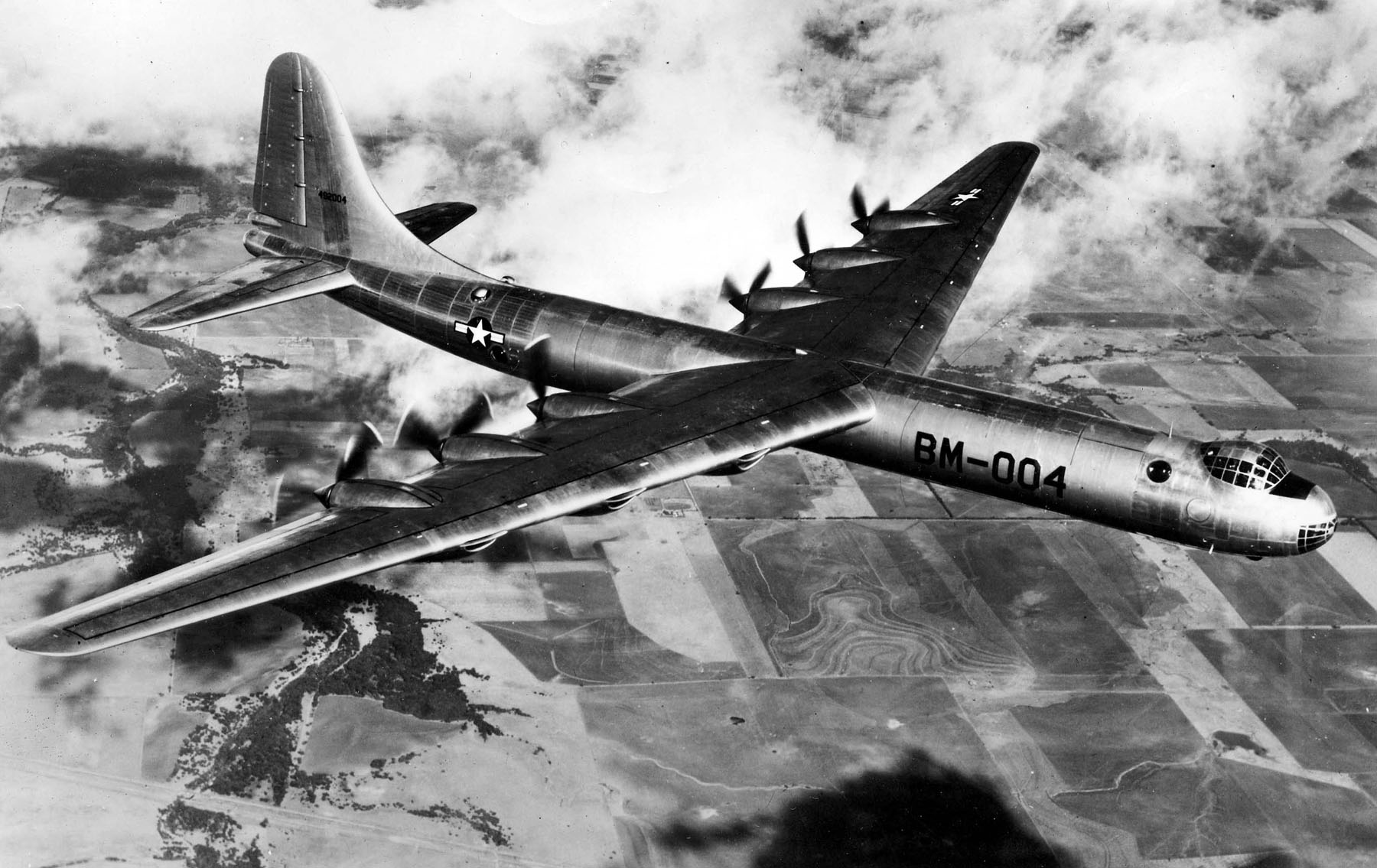 Convair B-36A-1-CF in Air. This was the first Convair B36A.